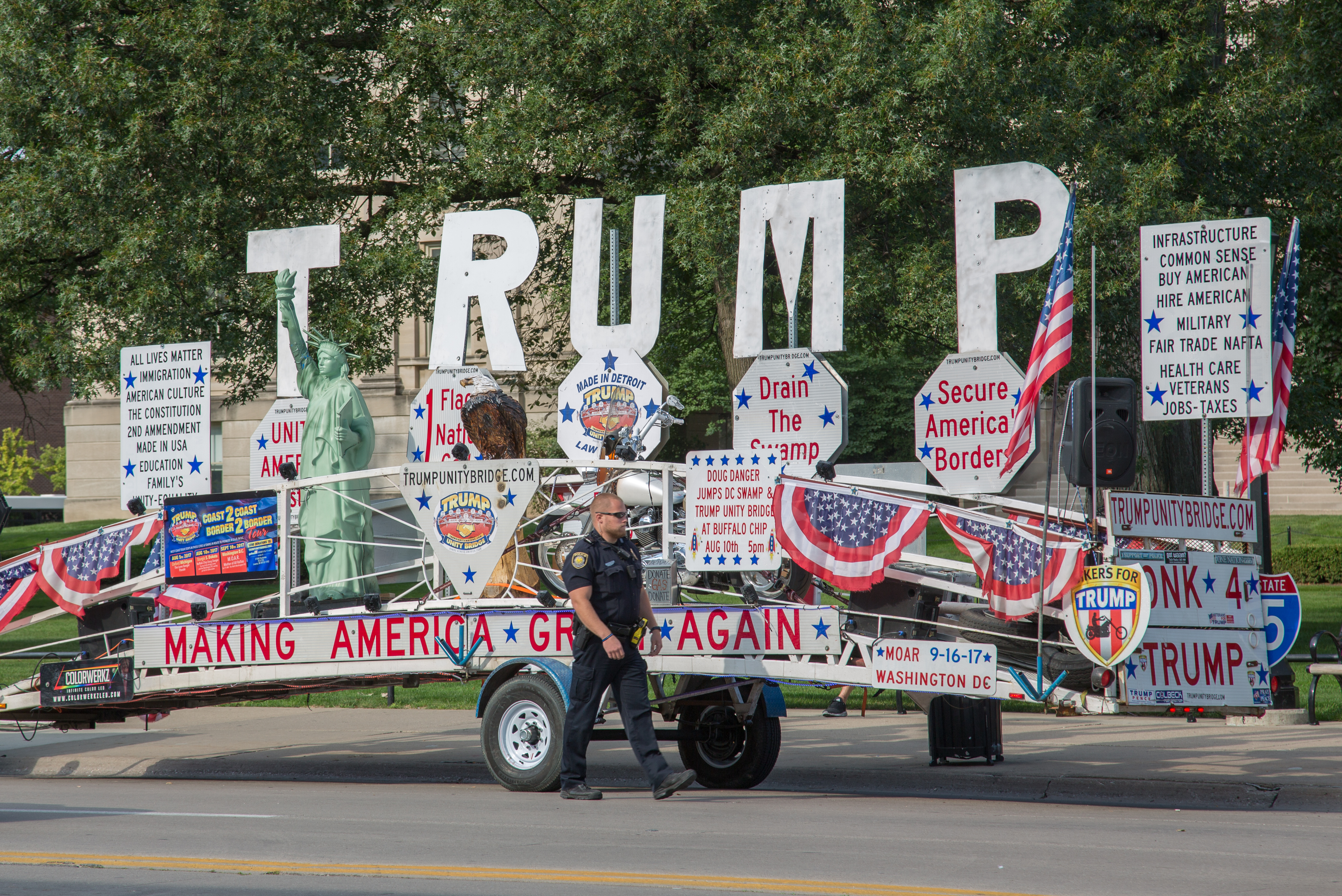 A University of Iowa police officer walks in front of the "Trump Unity Bridge" trailer on August 18, 2017, in Iowa City, Iowa.